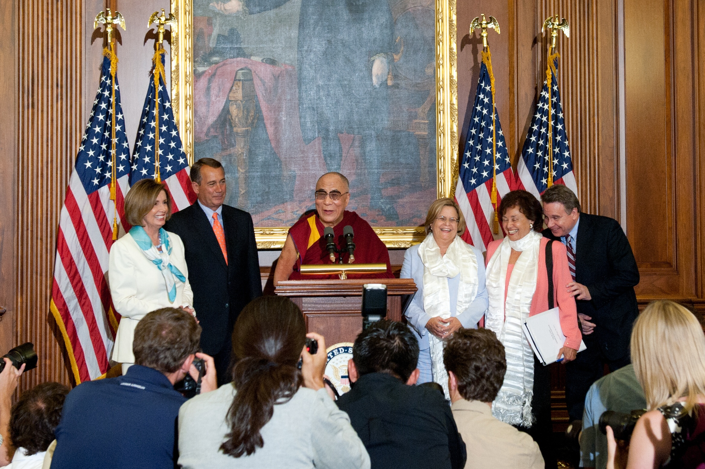 Leader Pelosi, Speaker Boehner, Rep. Ileana Ros-Lehtinen (R- FL), Rep. Nita Lowey (D-NY), and Rep. Chris Smith (R-NJ) with His Holiness the Dalai Lama in the Capitol on July 7, 2011. Democratic Leader Nancy Pelosi joined Speaker John Boehner at a brief press availability following their meeting with His Holiness the Dalai Lama in the Capitol. Below are the Leader’s remarks: “Thank you very much, Mr. Speaker. I want to pick up where you left off with that – His Holiness being a source of understanding in bringing the two parties in the House of Representatives together. For decades, really, Mr. Wolf, Chairman Wolf, Chairman Smith, Chairwoman Ros-Lehtinen, Chairwoman Lowey, now Ranking Member Lowey, and Mr. Berman who was with us earlier, have worked together to understand better and help the Tibetan people. “I’m very proud of the fact that we have come together under the dome of the Capitol a number of times to honor His Holiness. President Bush, President George Walker Bush, in 2007 was present to present to His Holiness the Congressional Gold Medal. At that time, he did so honoring the commitment of His Holiness to peace, to nonviolence, to human rights, and to religious understanding. A couple of years later, President Obama welcomed the Dalai Lama to the White House, and we were honored by that. But his association with our country and our presidents goes way back, when he was a very little boy and first became the Dalai Lama, President Franklin Roosevelt sent him a watch, recognizing his love, even as a little boy, for science and technology; it was a watch that had a phases of the moon on it. And it is always a source of great pride to us that this relationship between our two countries and leaders goes back so far. “So it is with great admiration, even I would say affection, and really great historic honor to join our distinguished Speaker, our colleagues in a bipartisan way, to welcome His Holiness once again to the Capitol of the United States.”